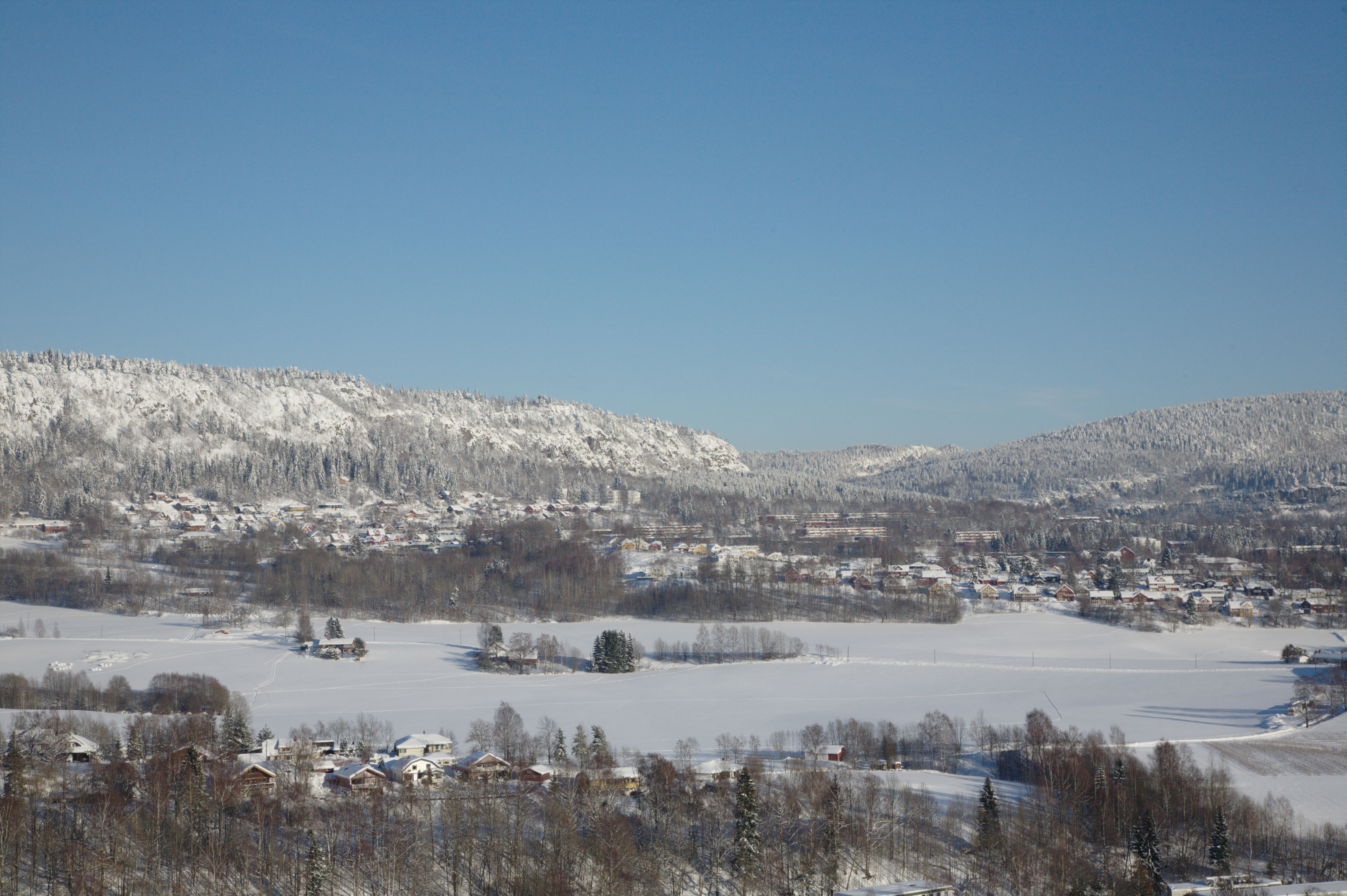 View of Bærum from Skuibakken